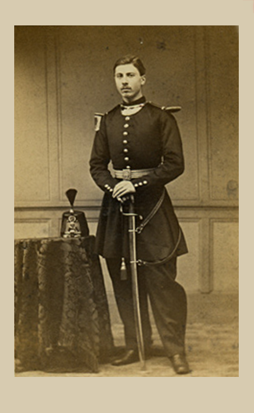 French Infantry-officer during the second empire